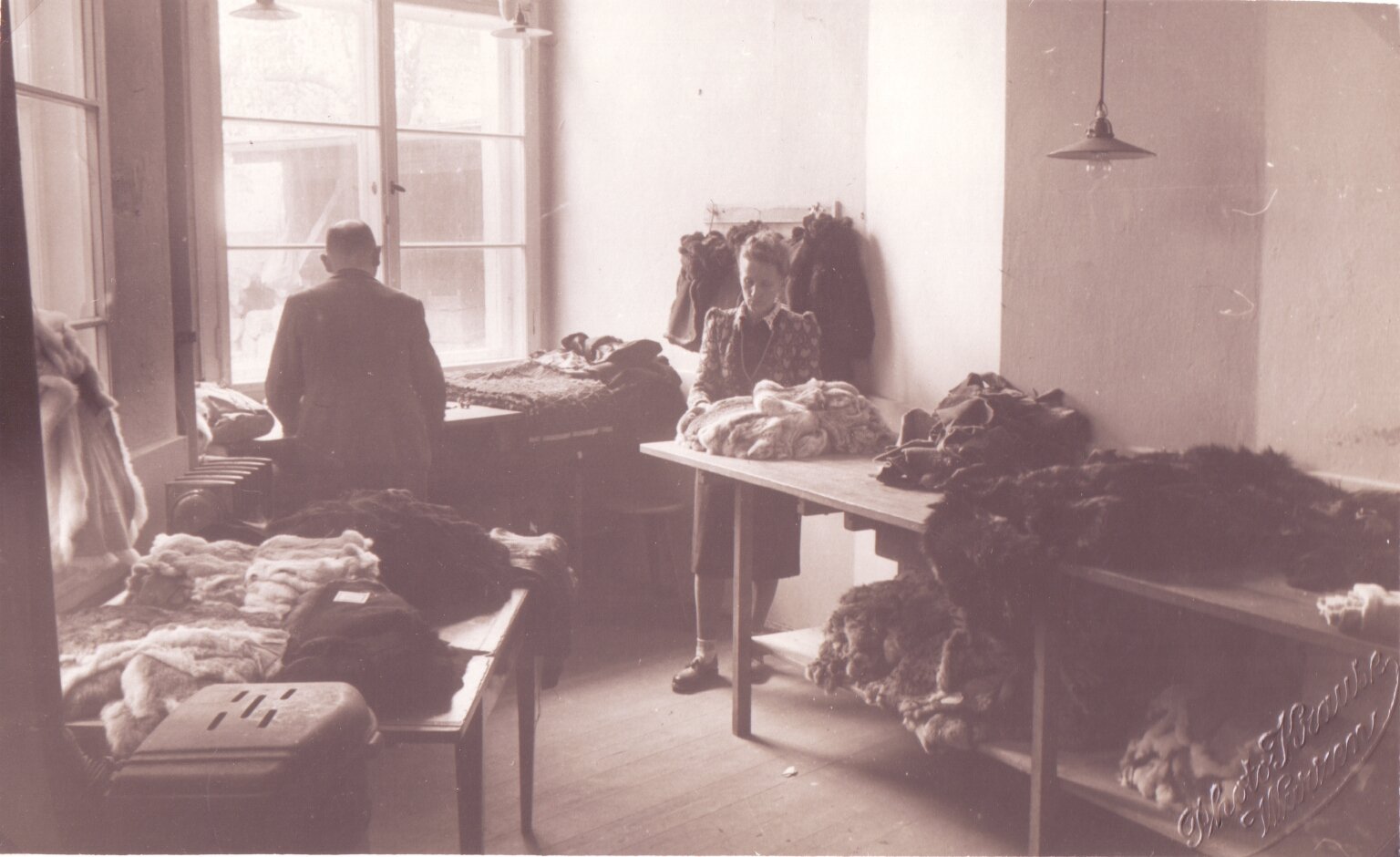 Furrier family Bennewitz in Wurzen, Germany since 1652